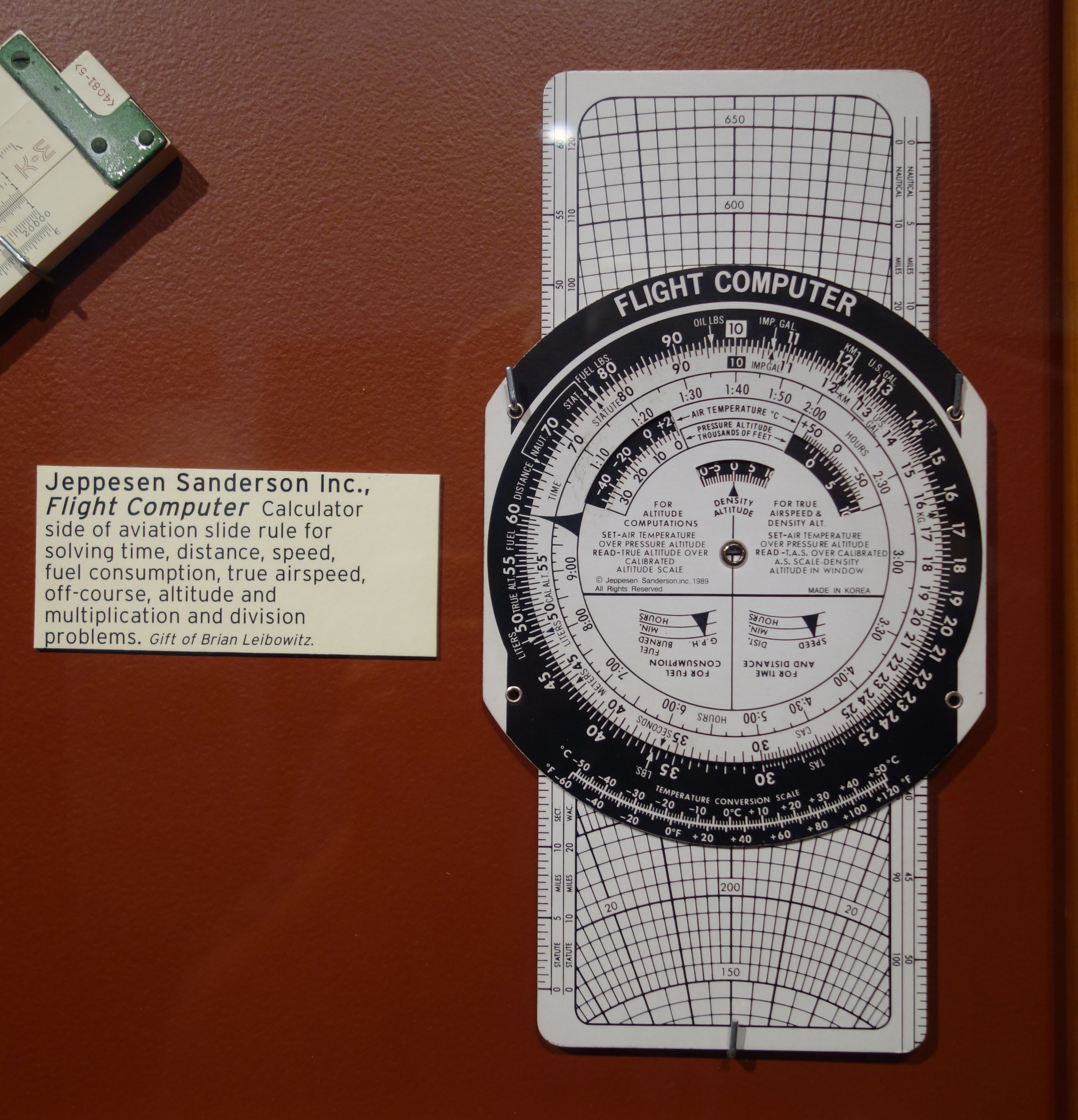 Jeppesen Sanderson Inc., Flight Computer in the MIT Slide Rule Collection, MIT Museum, Cambridge, Massachusetts, USA. The museum permitted photography without restriction.